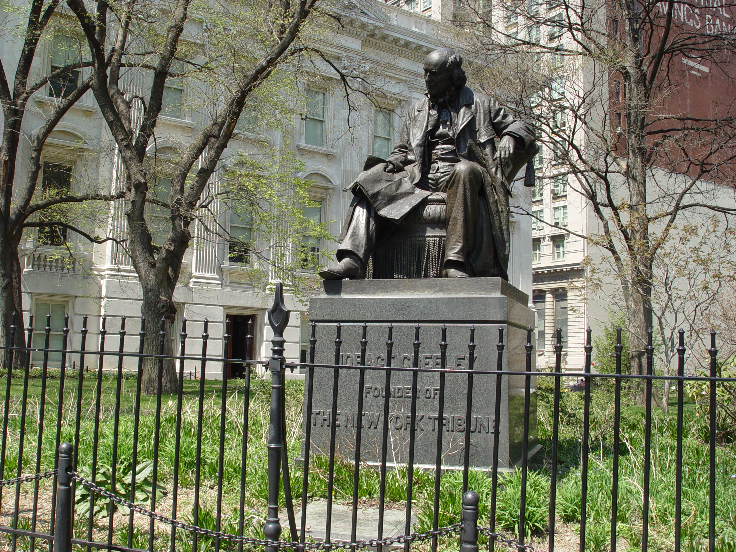 Looking northwest at Horace Greeley statue in eastern part of City Hall Park on a sunny early afternoon.